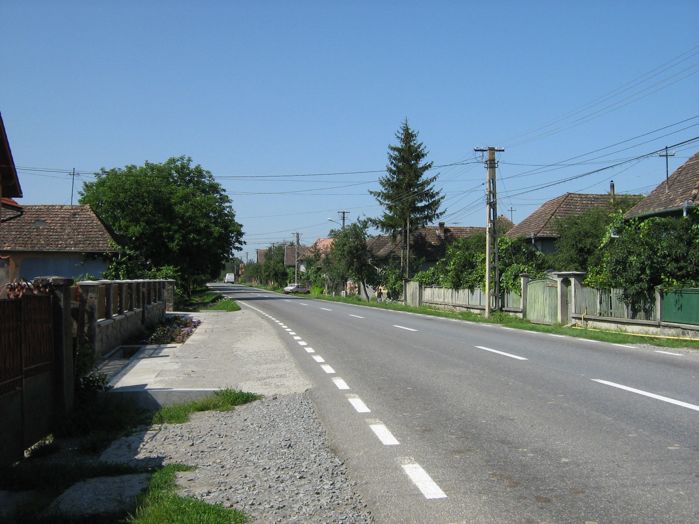 DN13A national road in Romania, in Chibed, Mureş County